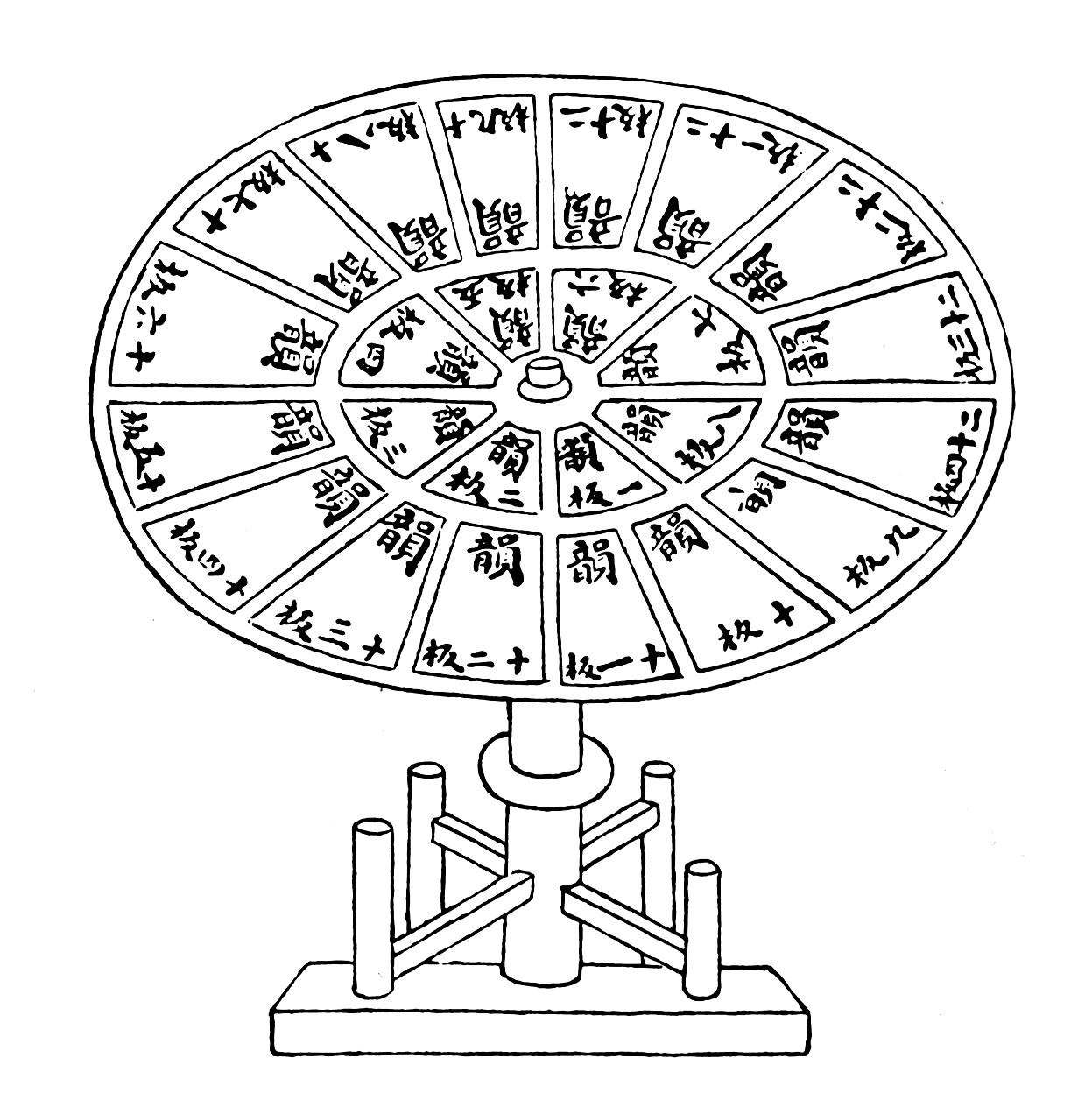 A Chinese revolving typecase from the agricultural book Nong Shu, written by the Chinese official and agronomist Wang Zhen, published in the year 1313 CE during the Yuan Dynasty.